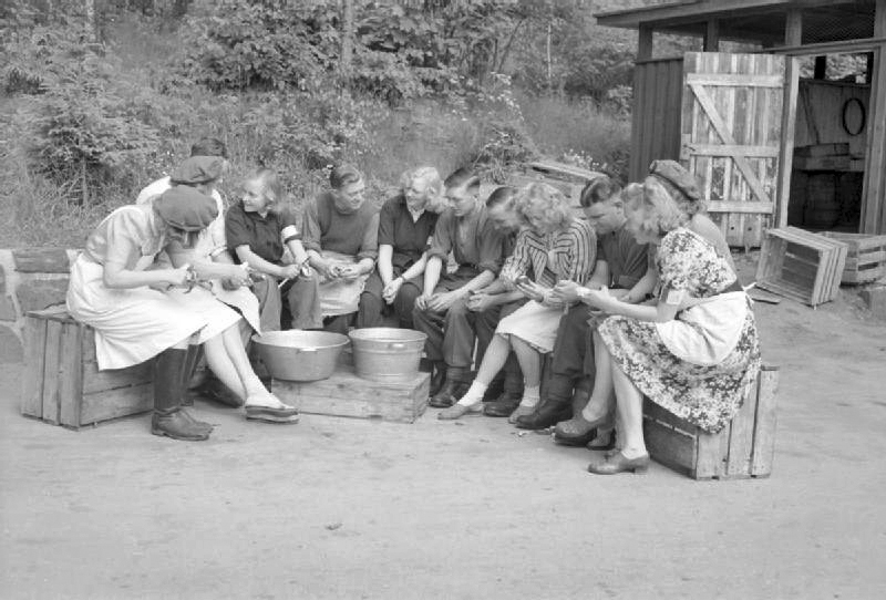 Norway After Liberation 1945 Norwegian girls assist cookhouse staff to peel potatoes on a Royal Air Force station of 88 Group near Oslo. Many Norwegian girls assisted with cooking duties on Royal Air Force bases in the absence of members of the Women's Auxiliary Air Force (WAAF).